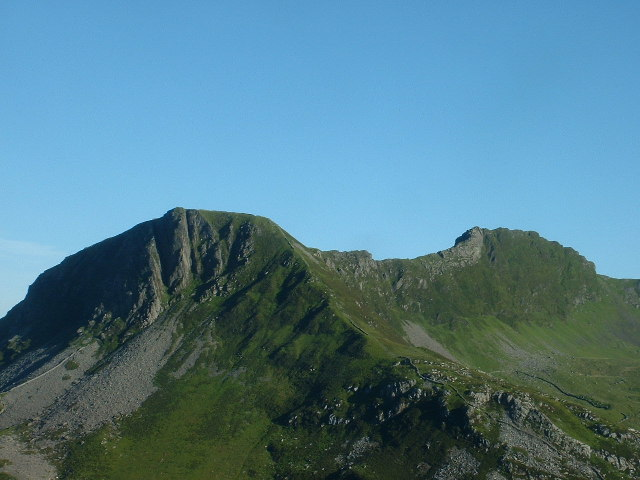 Y Garn. The skyline ridge is the popular walking route known as the Nantlle Ridge.